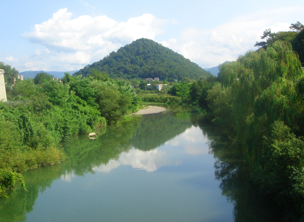 Dagomys, Sochi